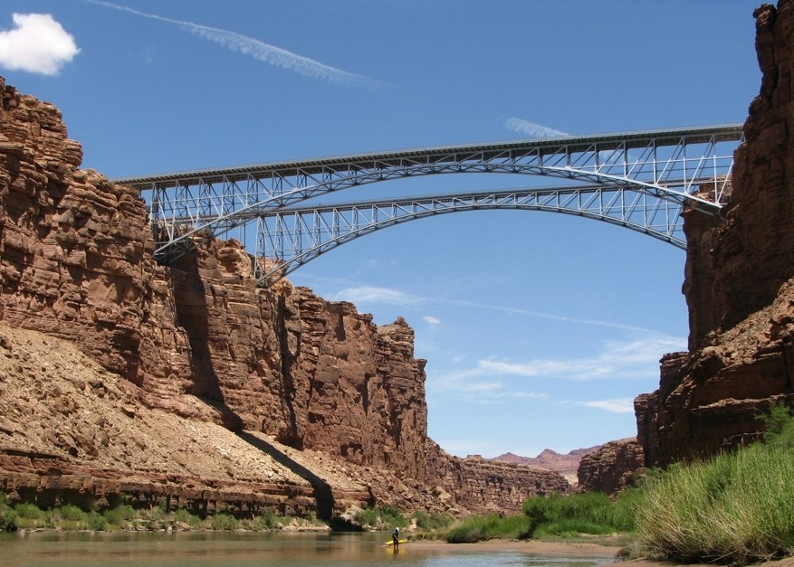 The Colorado River in Marble Canyon — near Lee's Ferry, Arizona, United States. View is looking upriver (north) with the Navajo Bridges above — the wider 1995 Navajo Bridge is in front while the narrower 1929 Navajo Bridge is behind it.